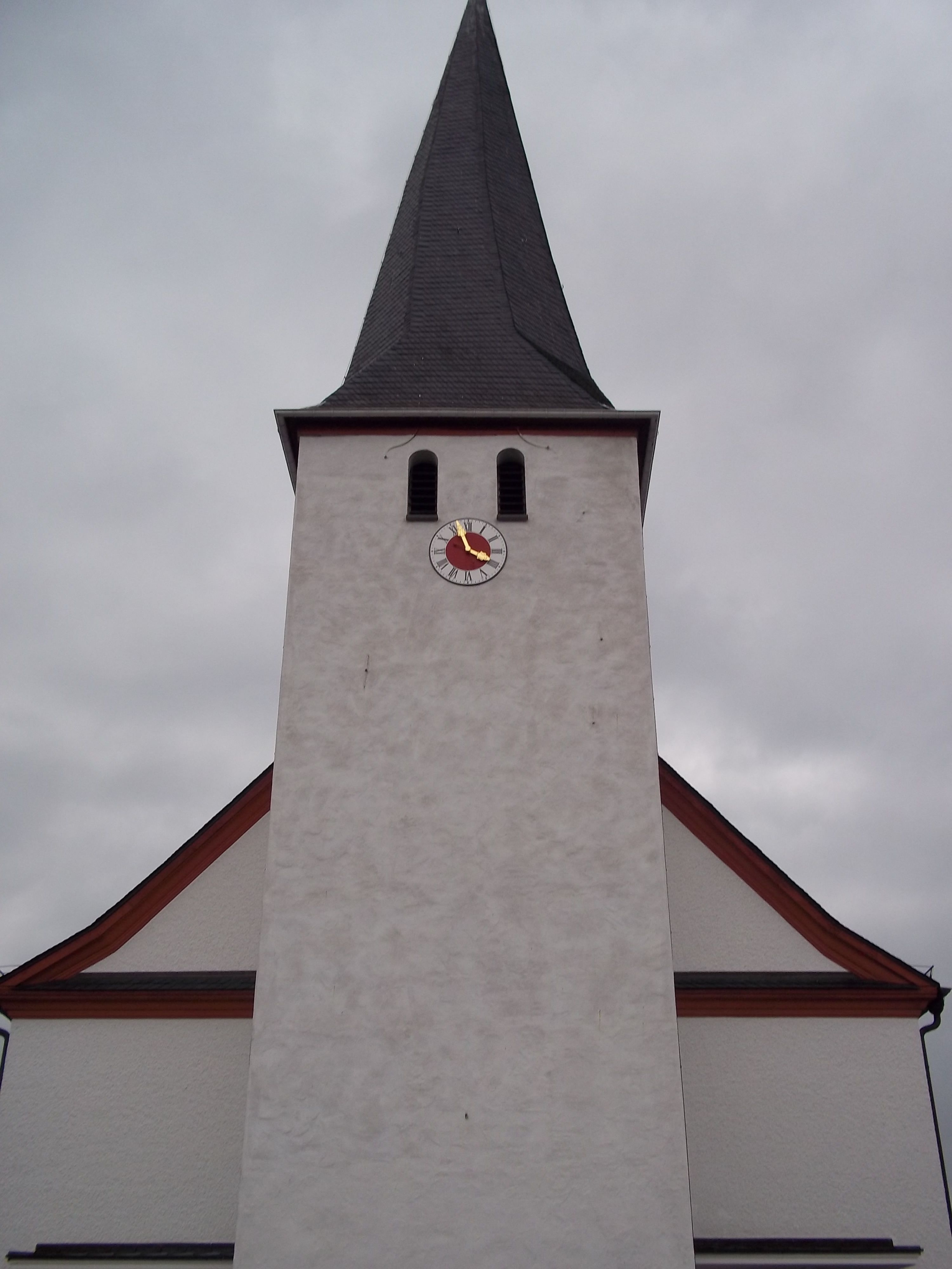 Tower of St. Cäcilia